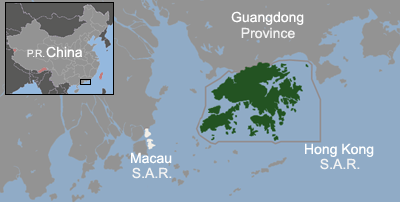 The location of Hong Kong within the Pearl River Delta The map also shows the maritime boundary of Hong Kong since July 1 1997.